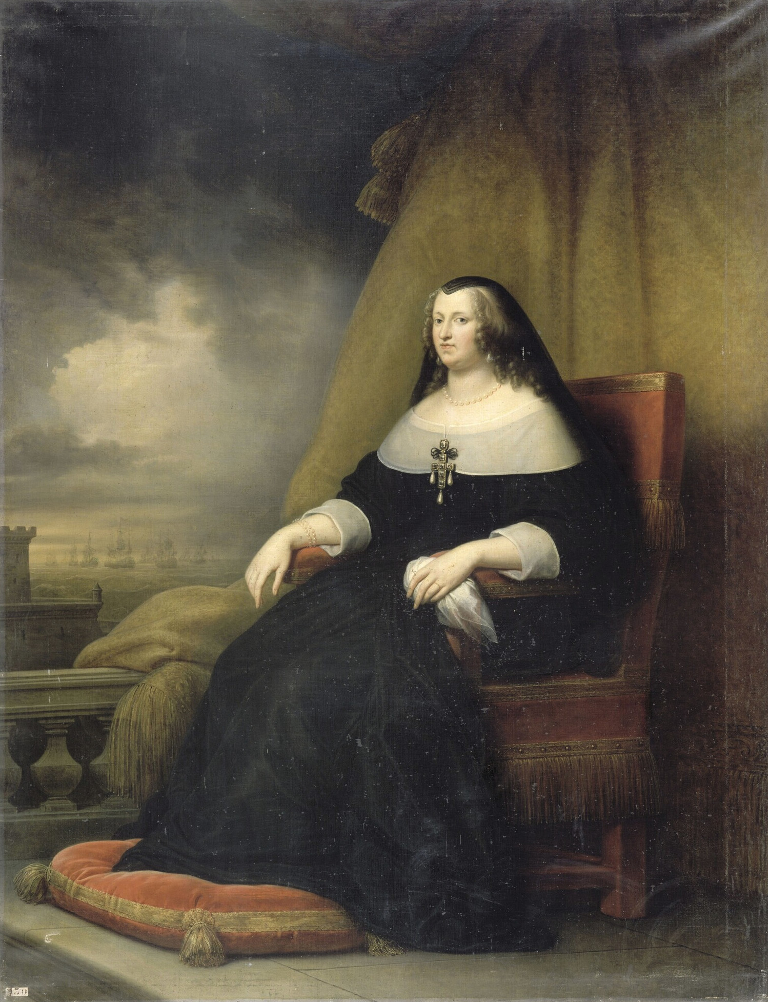 Anna of Austria as widow